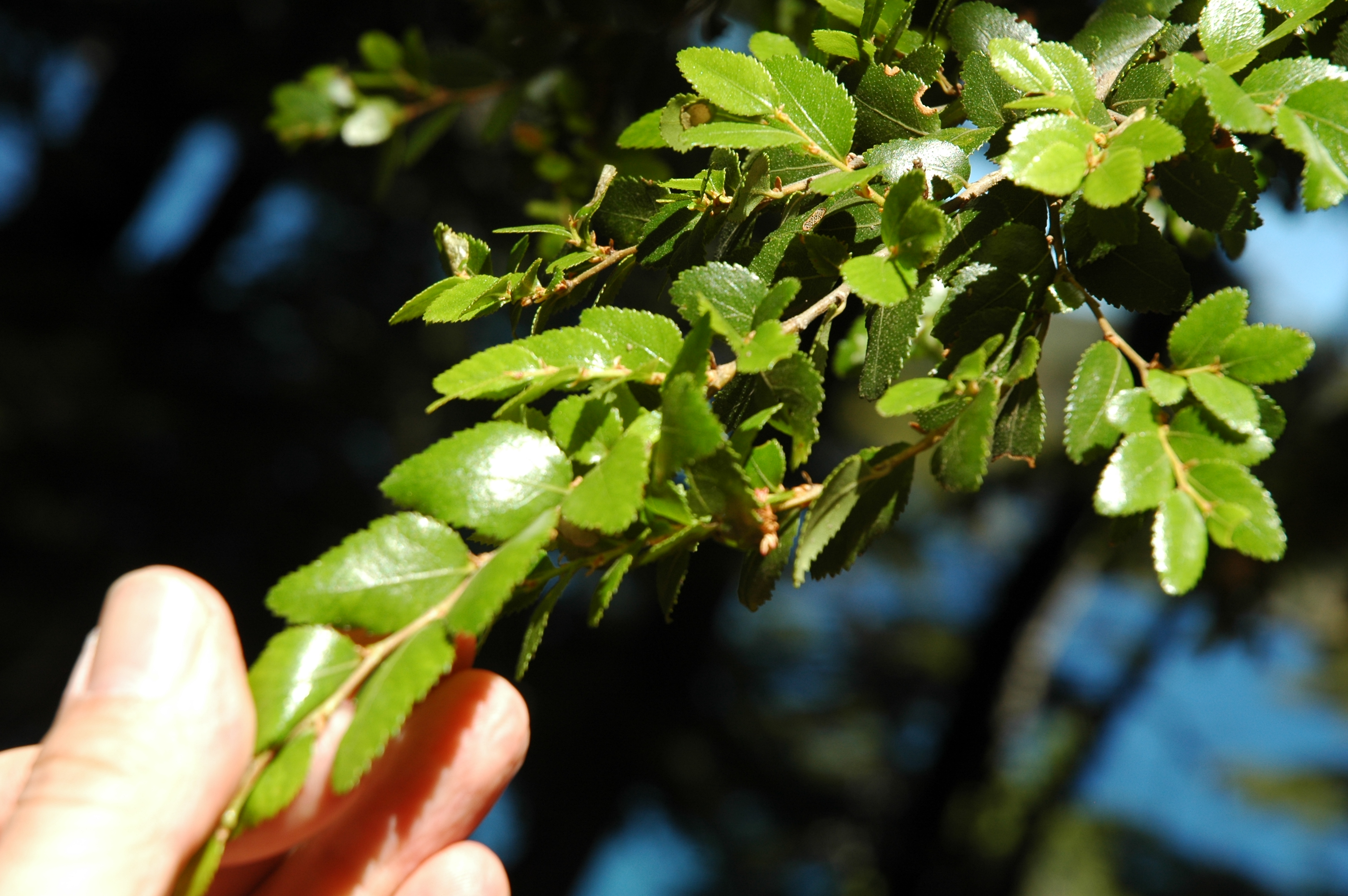 Leaves of Nothofagus dombeyi (Coihue). Neuquén, Argentina.